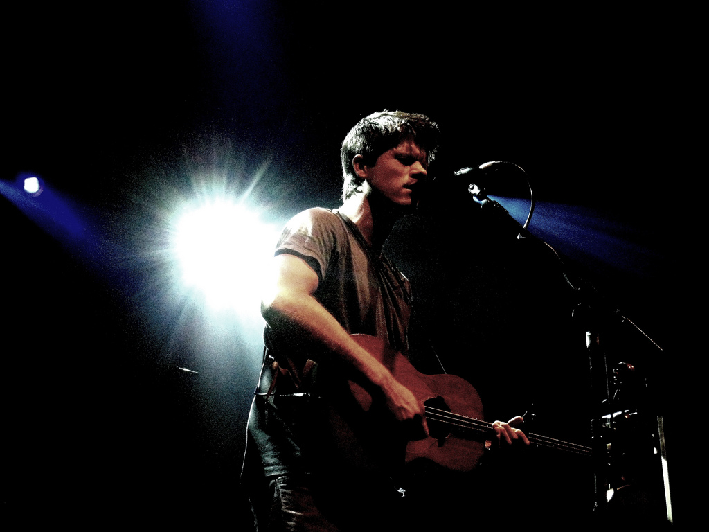 Seth Lakeman performing live at the Larmer Tree 2008